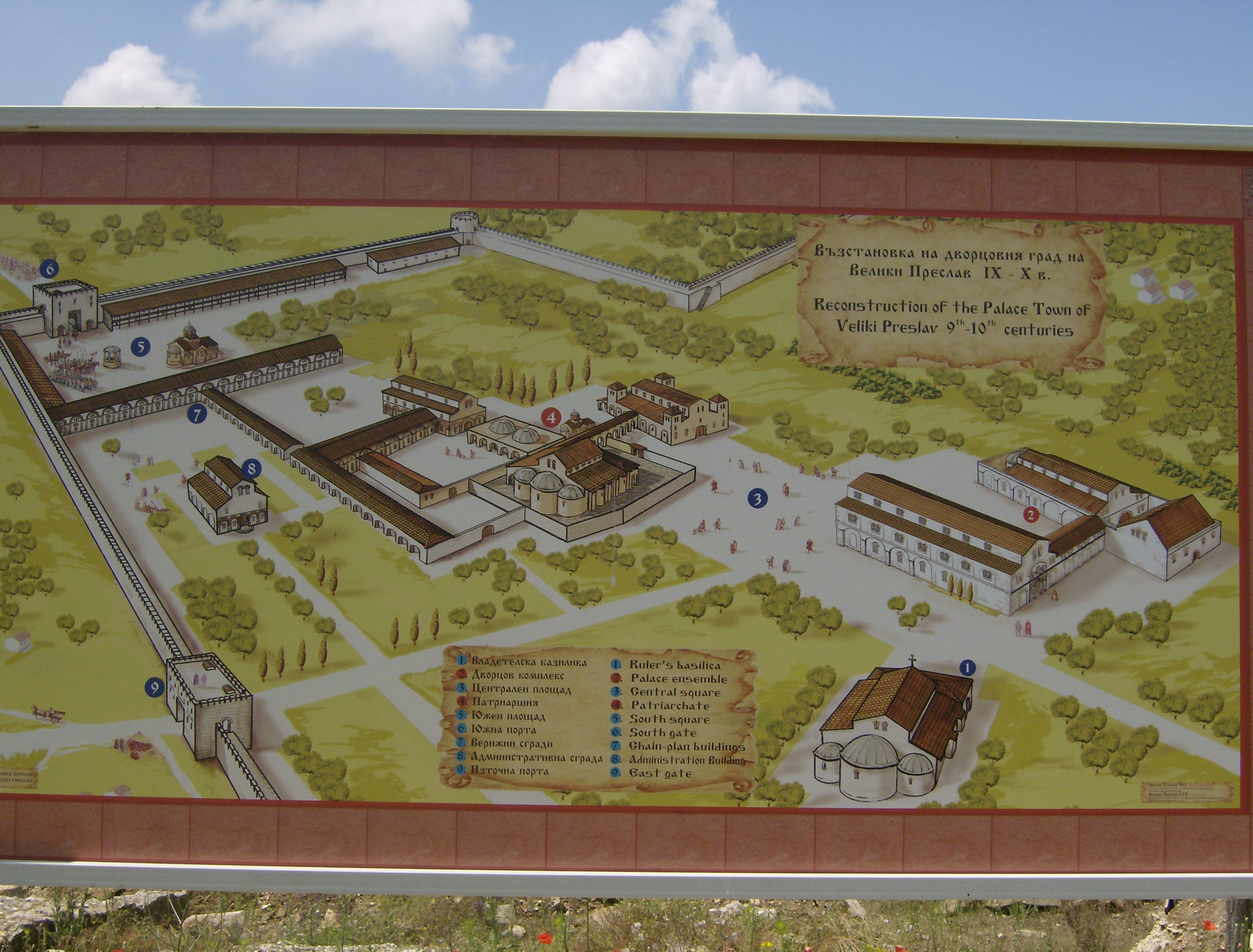 Preslav Fortress